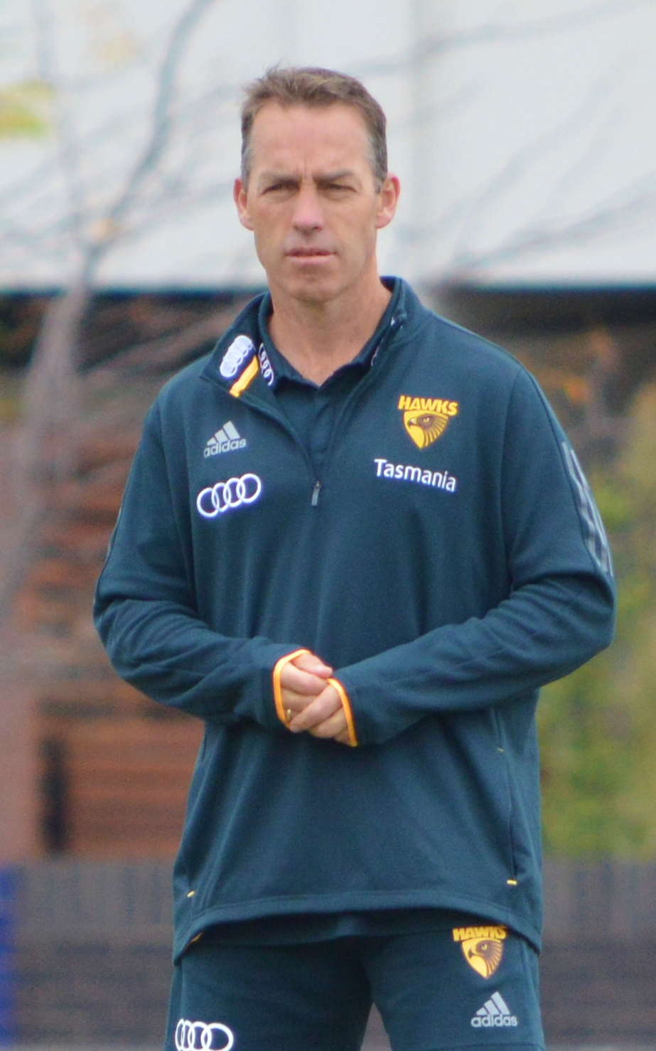 Alastair Clarkson at Hawthorn training in April 2017.